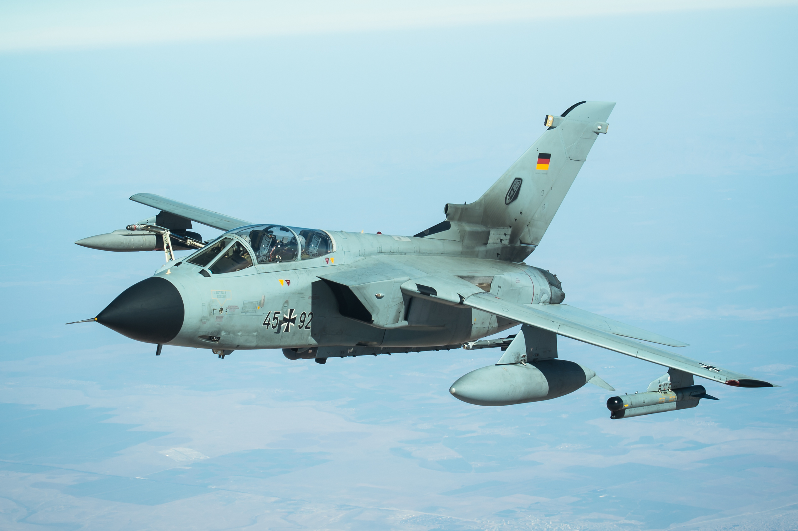 A German Tornado GR.4 separates from a KC-10 Extender after receiving fuel during a mission in support of Combined Joint Task Force-Operation Inherent Resolve over Iraq, Feb. 22, 2017.The KC-10 Extender offloaded 126,000 pounds of fuel to multi-national Coalition aircraft working to weaken and destroy Islamic State in Iraq and the Levant operations in the Middle East region and around the world.